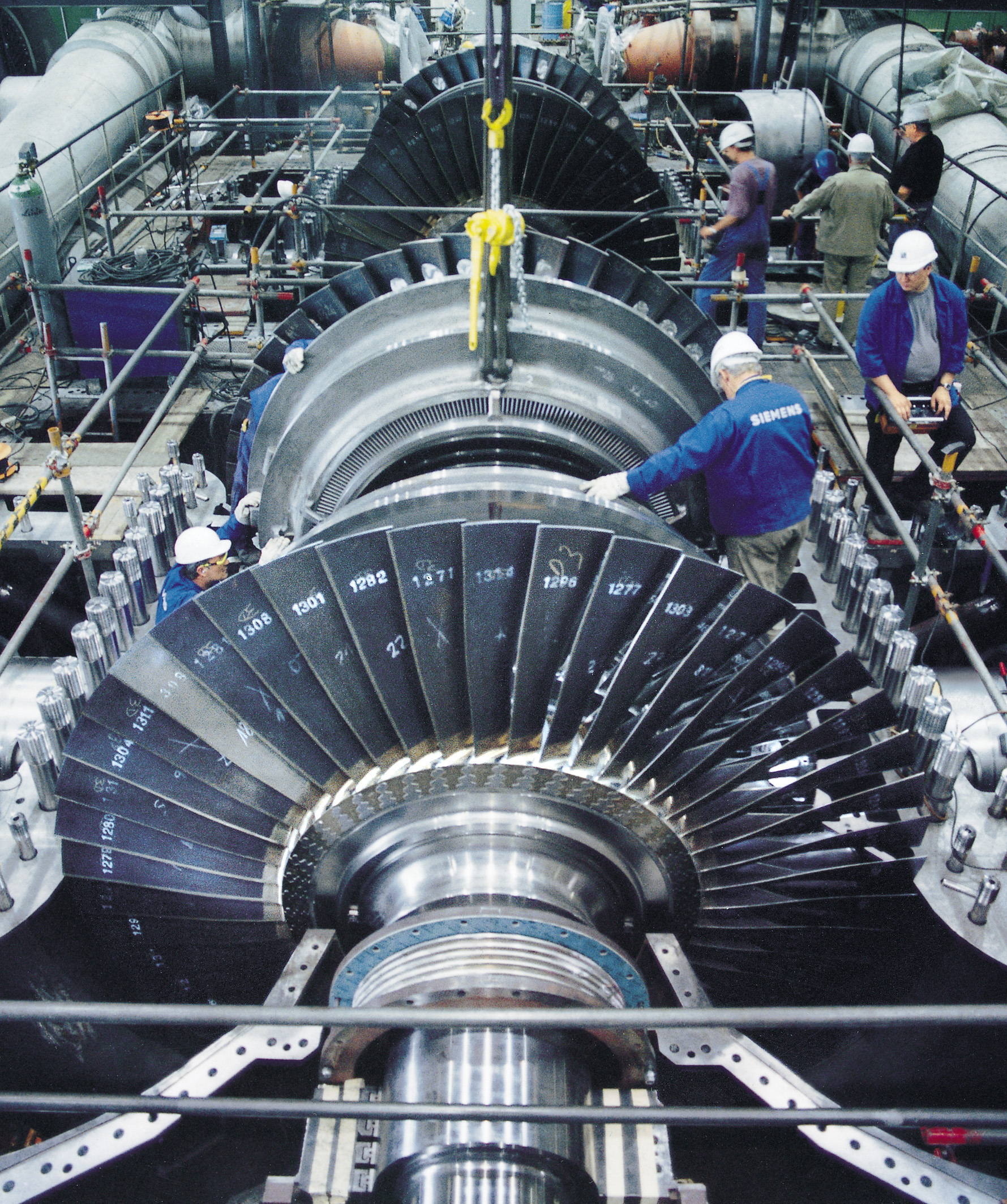 Assembly of a steam turbine rotor produced by Siemens, Germany.